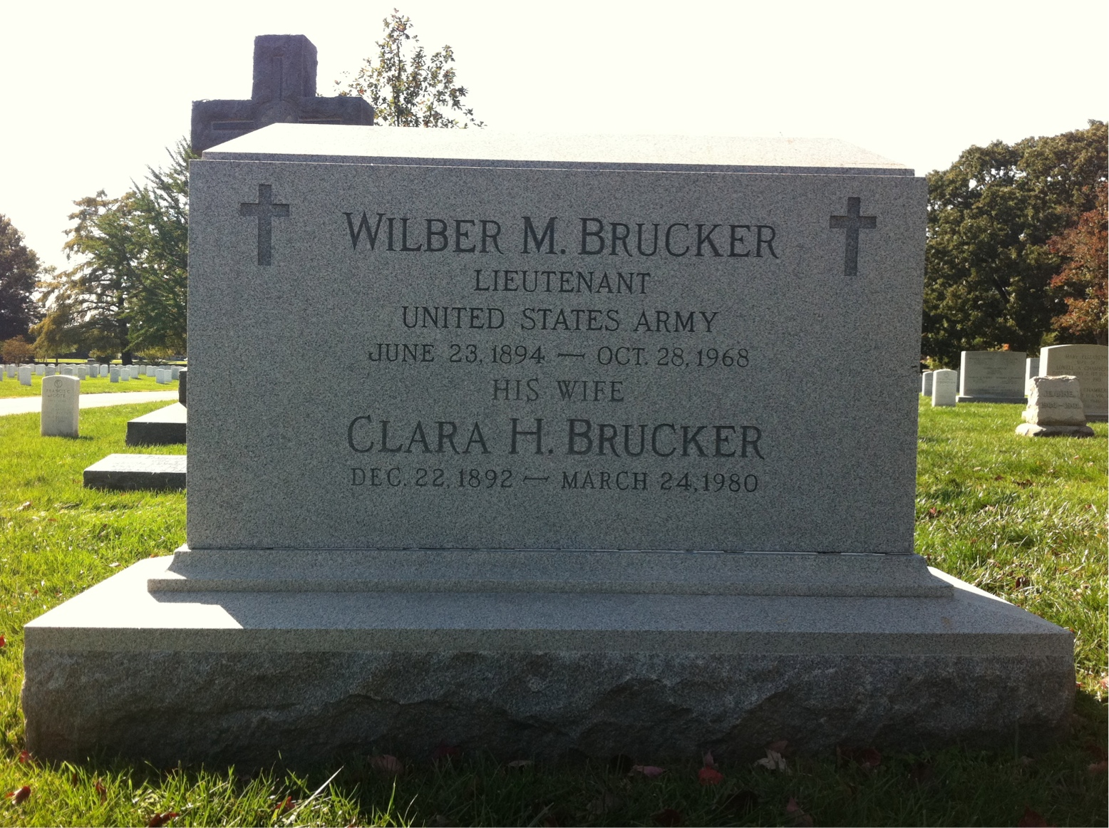 Grave of Wilber M. Brucker at Arlington National Cemetery